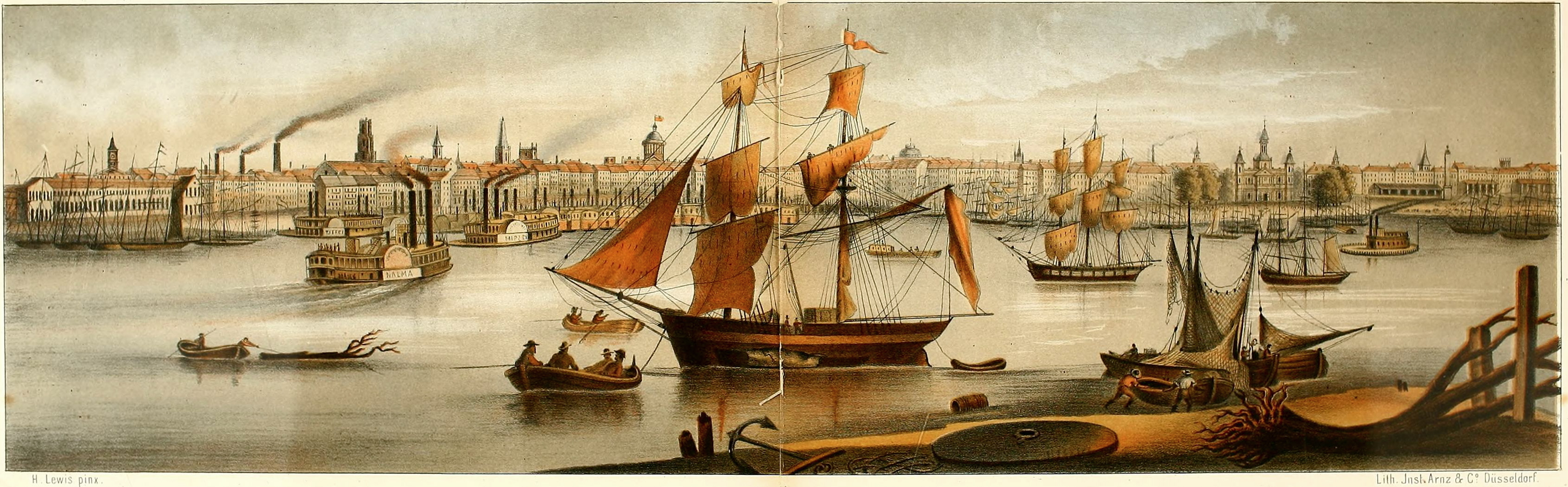 "New-Orleans (Louisiana)". View of the Mississippi River front of New Orleans in the late 1840s by Henry Lewis, showing area from the Faubourg St. Marie through the Vieux Carre, with Cathedral at Jackson Square visible right of center, as seen from across the river at Algiers. In the foreground on the river are steamships, sailing ships, and rowboats.